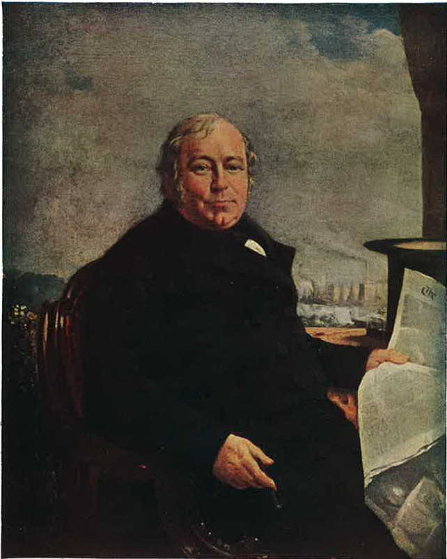 Oil painting of John Knight (1792-1864) soap maker of London, artist unknown c1840